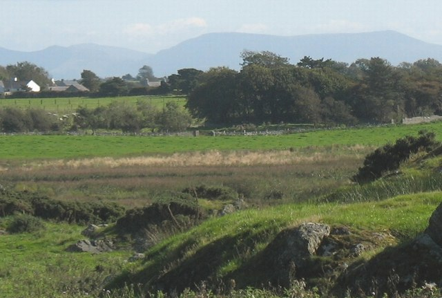 View across the northern section of Cors Crigyll towards the site of Llechylched Church The church enclosure is in the woodland in the middleground of the image. The houses beyond are in the Plas Llechylched-Gernant area. The Llechylched church, dedicated to Saint Ylched, was abandoned (together with that at Ceirchiog SH3676) in 1841 when they were replaced by Holy Trinity Church, Bryngwran. The churchyard with a few graves remains, but the church has long disappeared.